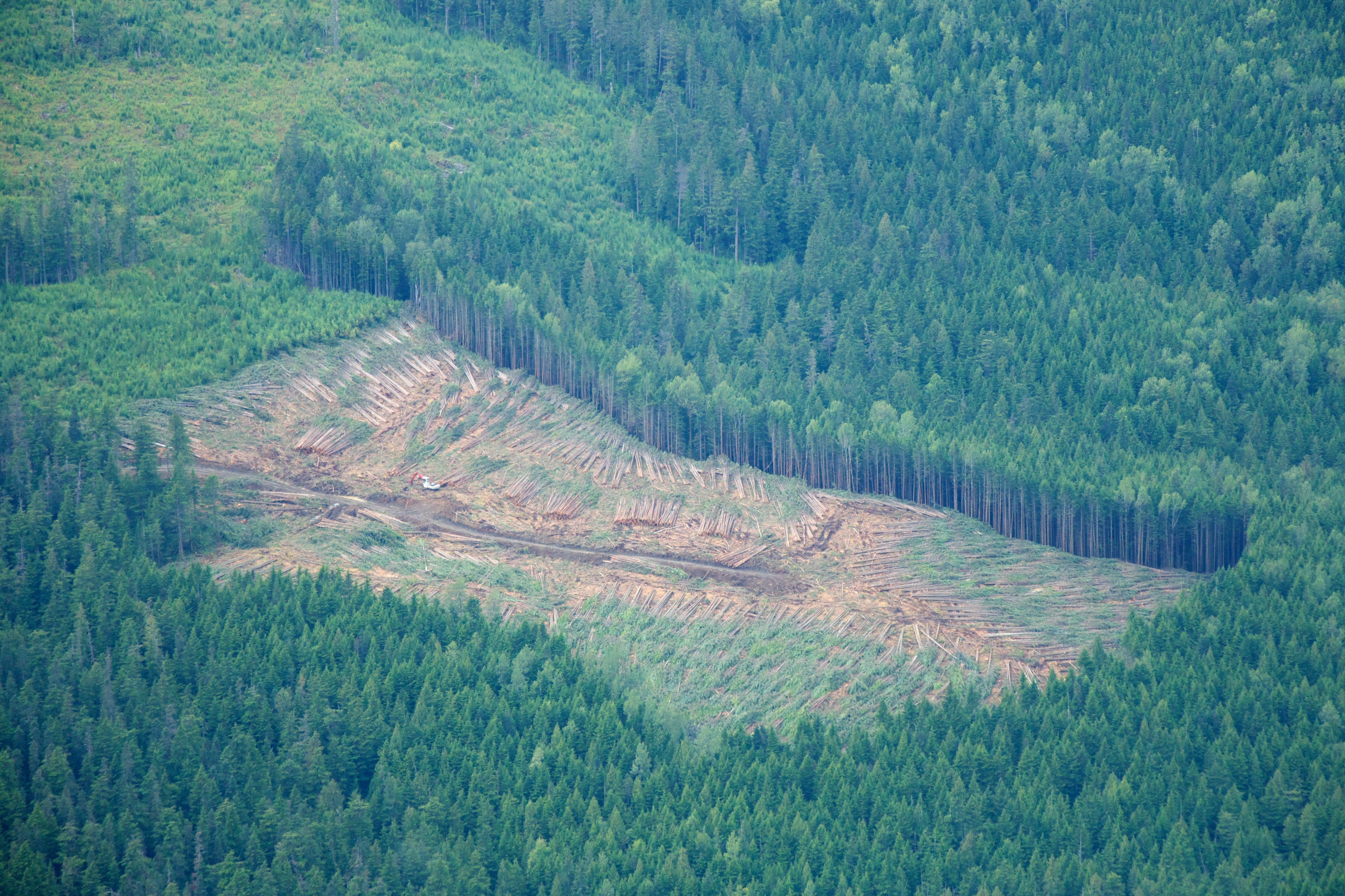 Aerial view of forestry clear cut in British Columbia